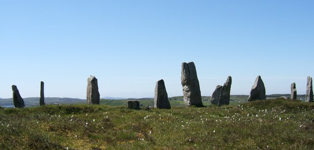 Callanish III